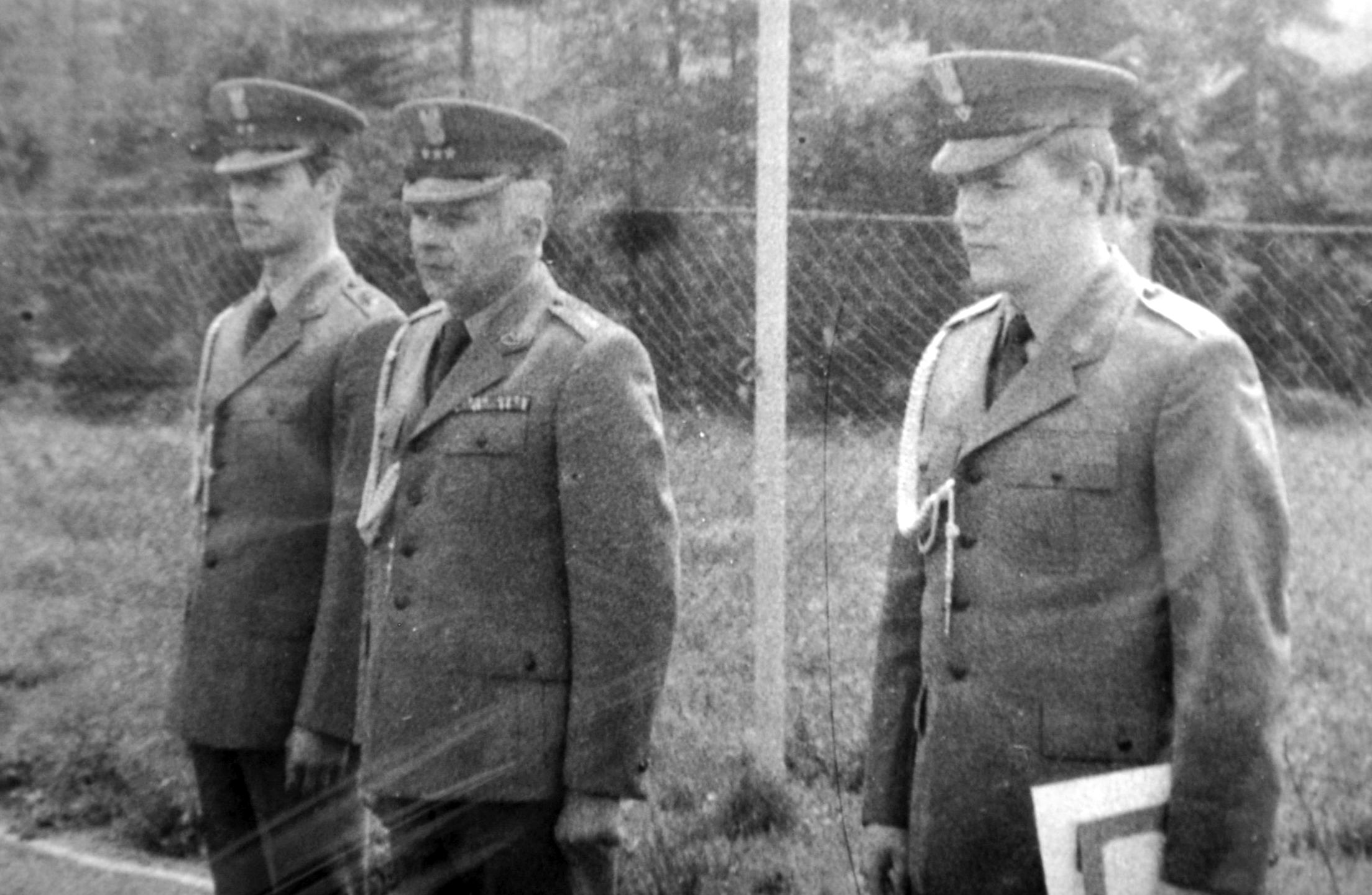 WOP post in Jakuszyce